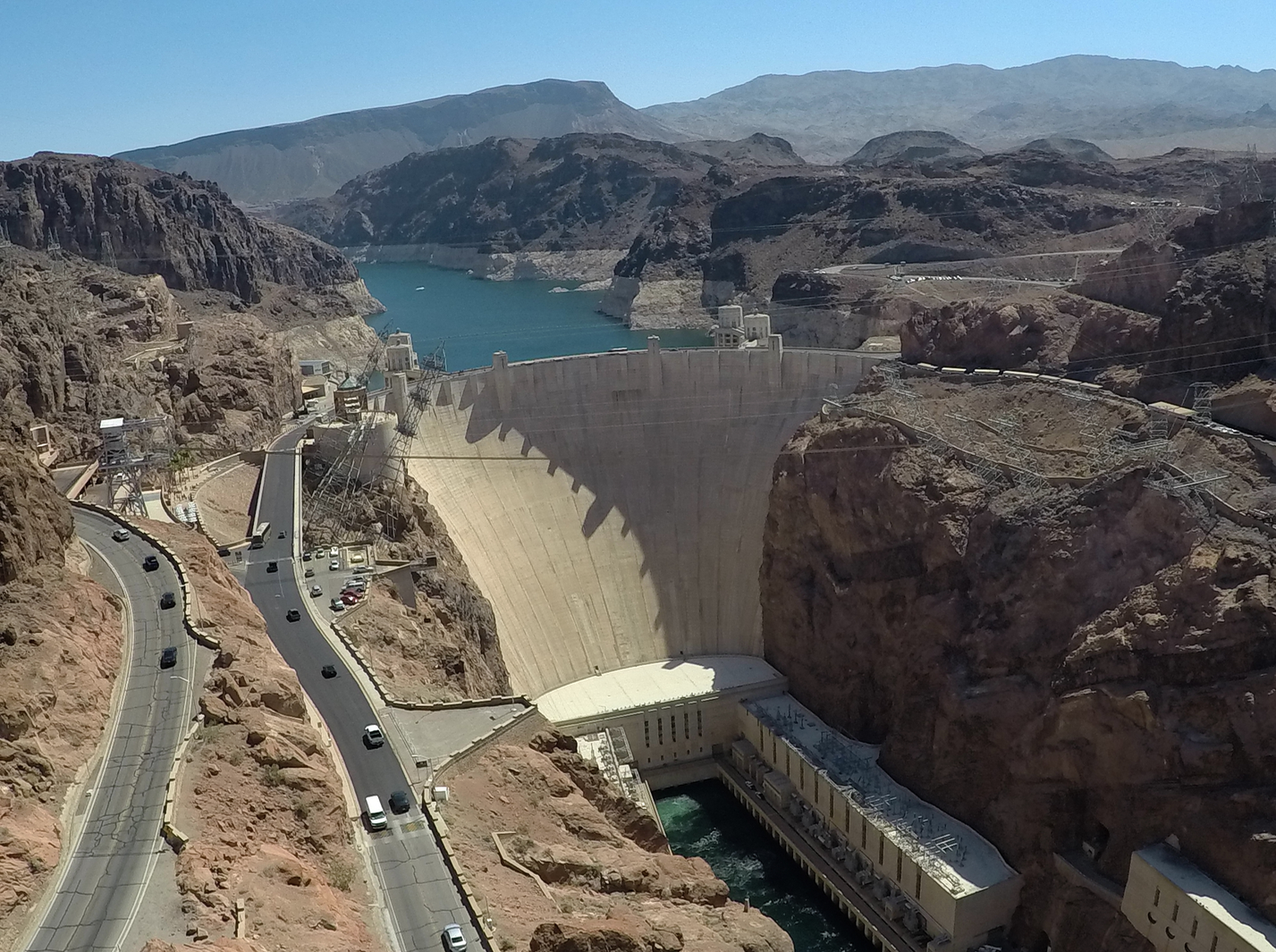 View of Hoover Dam from Mike O'Callaghan–Pat Tillman Memorial Bridge as of June 2018